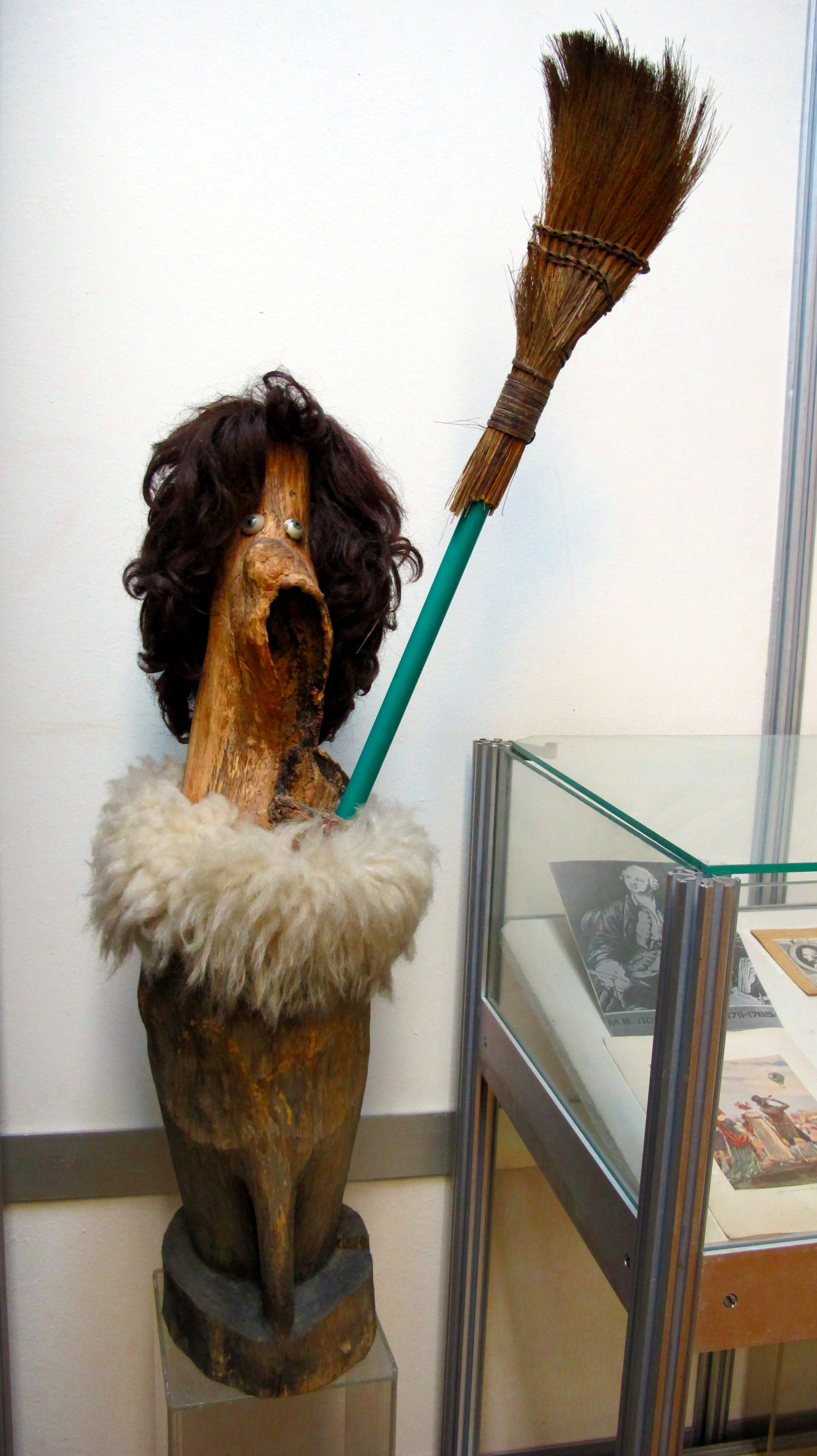 Wikitrip to MAI museum 2016-02-02